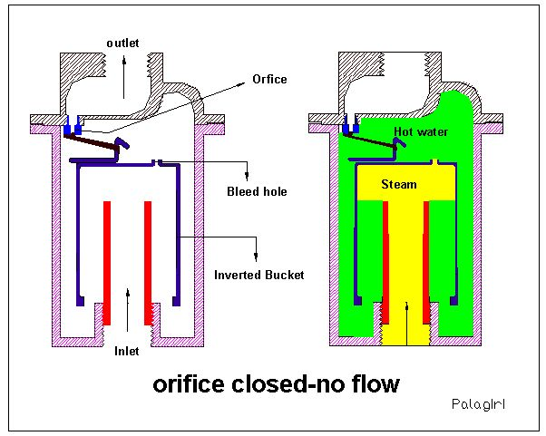 inverted bucket trap